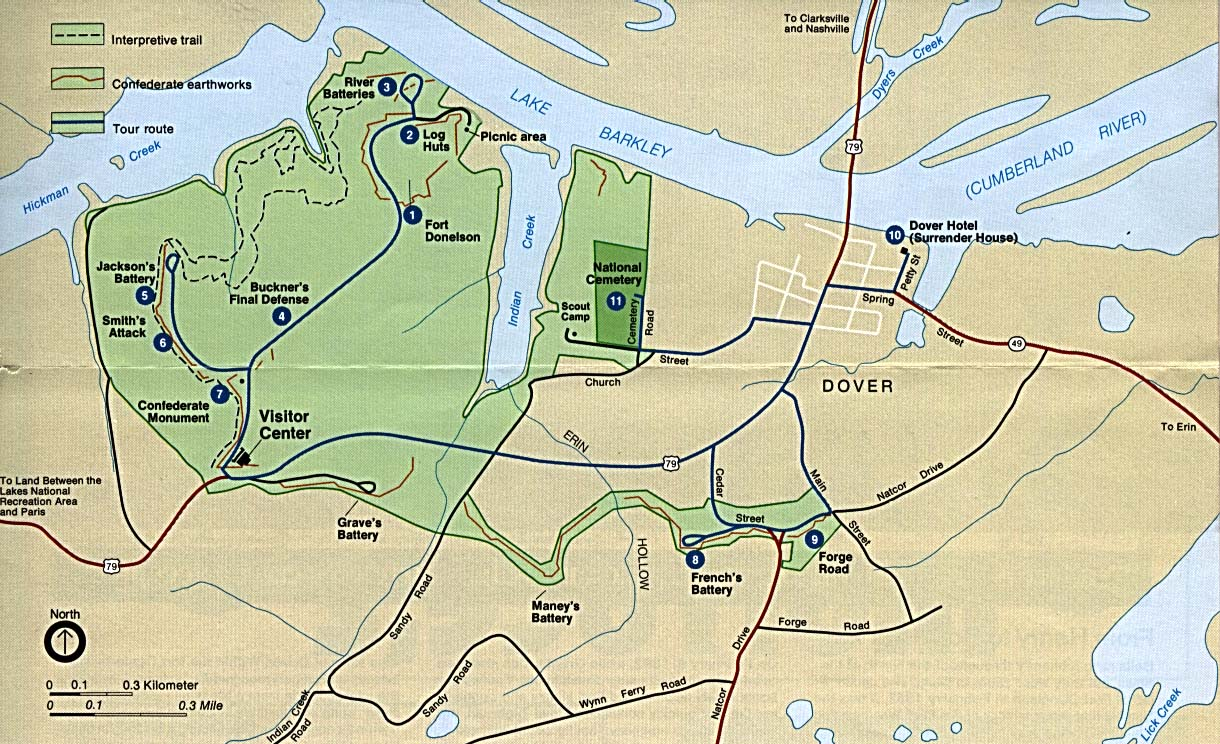 Map of Fort Donelson National Battlefield originally listed at